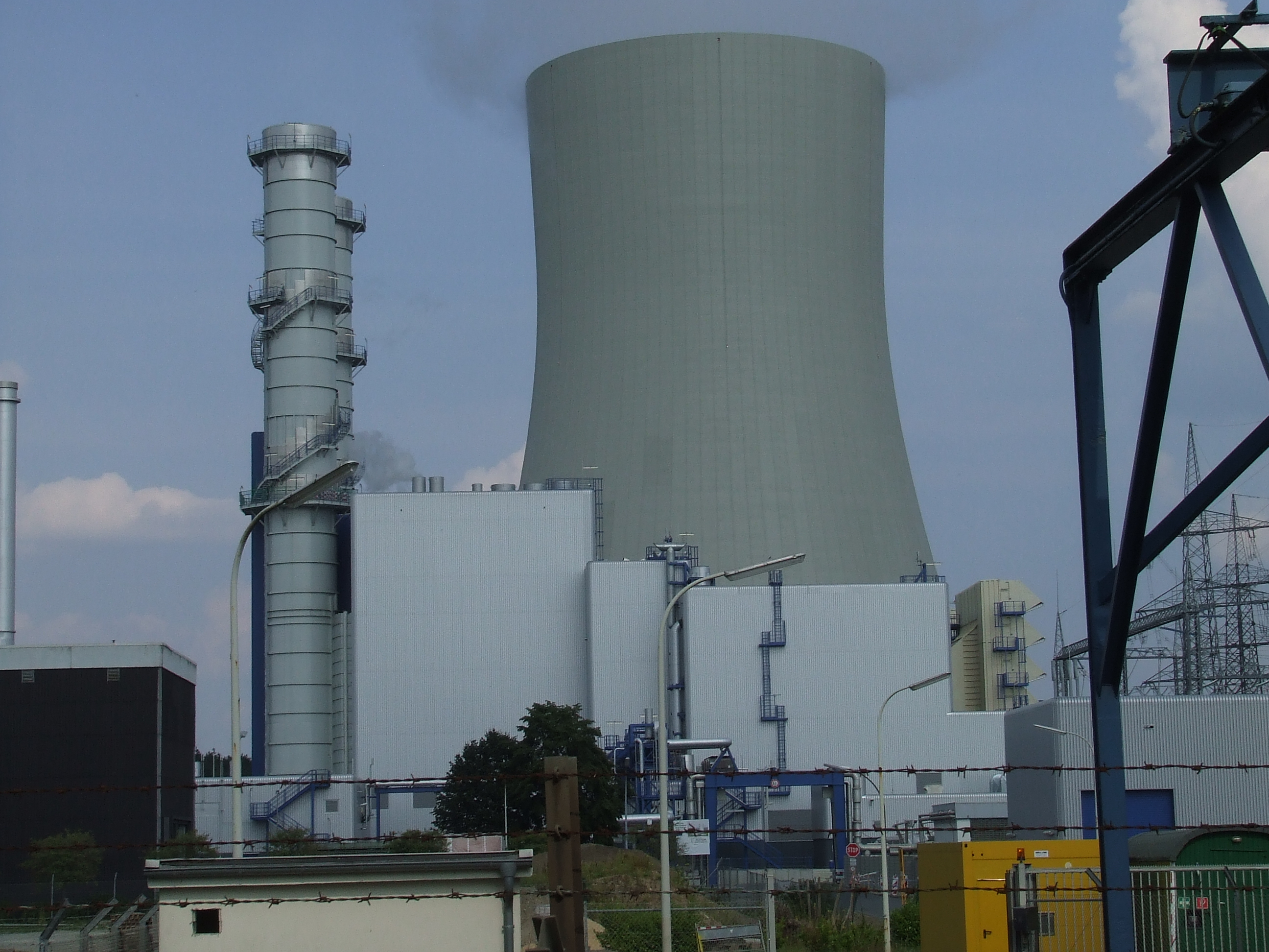 Gas- and Steamturbineplant, Unit-D near Lingen